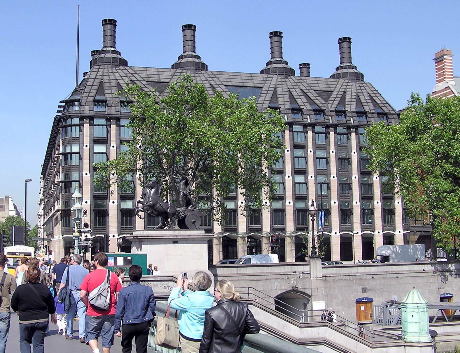 Portcullis House, London, England. Seen from Westminster Bridge. Photographed by Adrian Pingstone in June 2005 and released to the public domain.